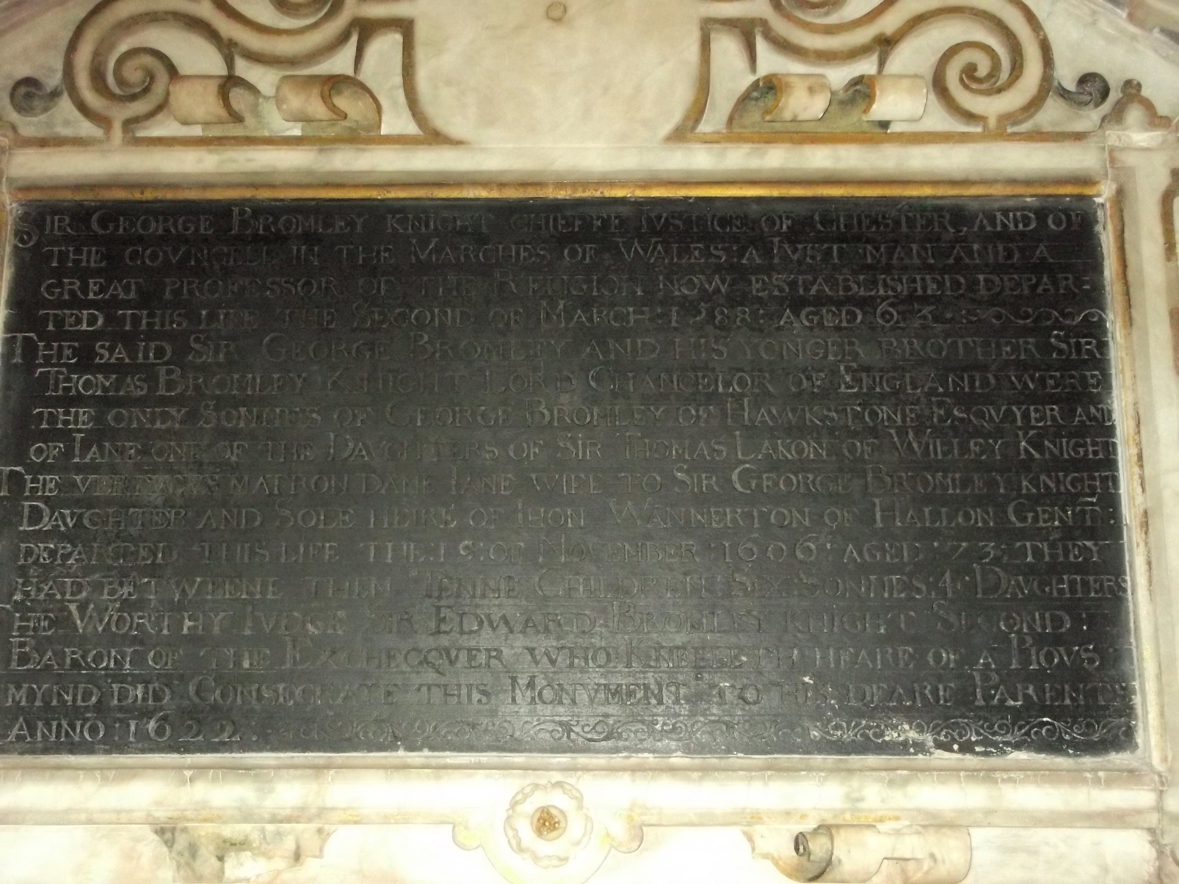 St Peter the Apostle, Worfield, Shropshire. Epitaph of George Bromley, a notable judge of the Tudor period.